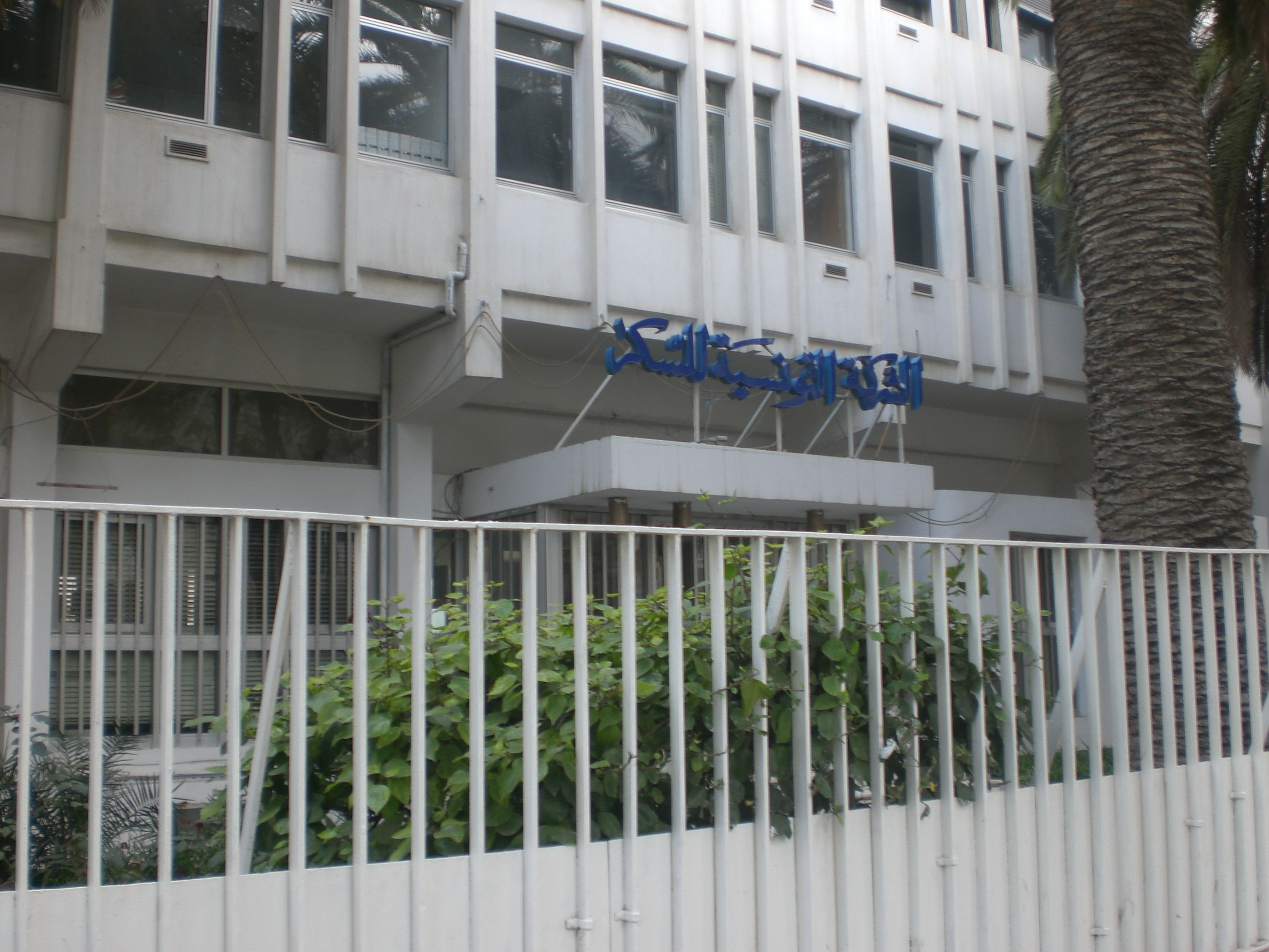 Société tunisienne de Sucre